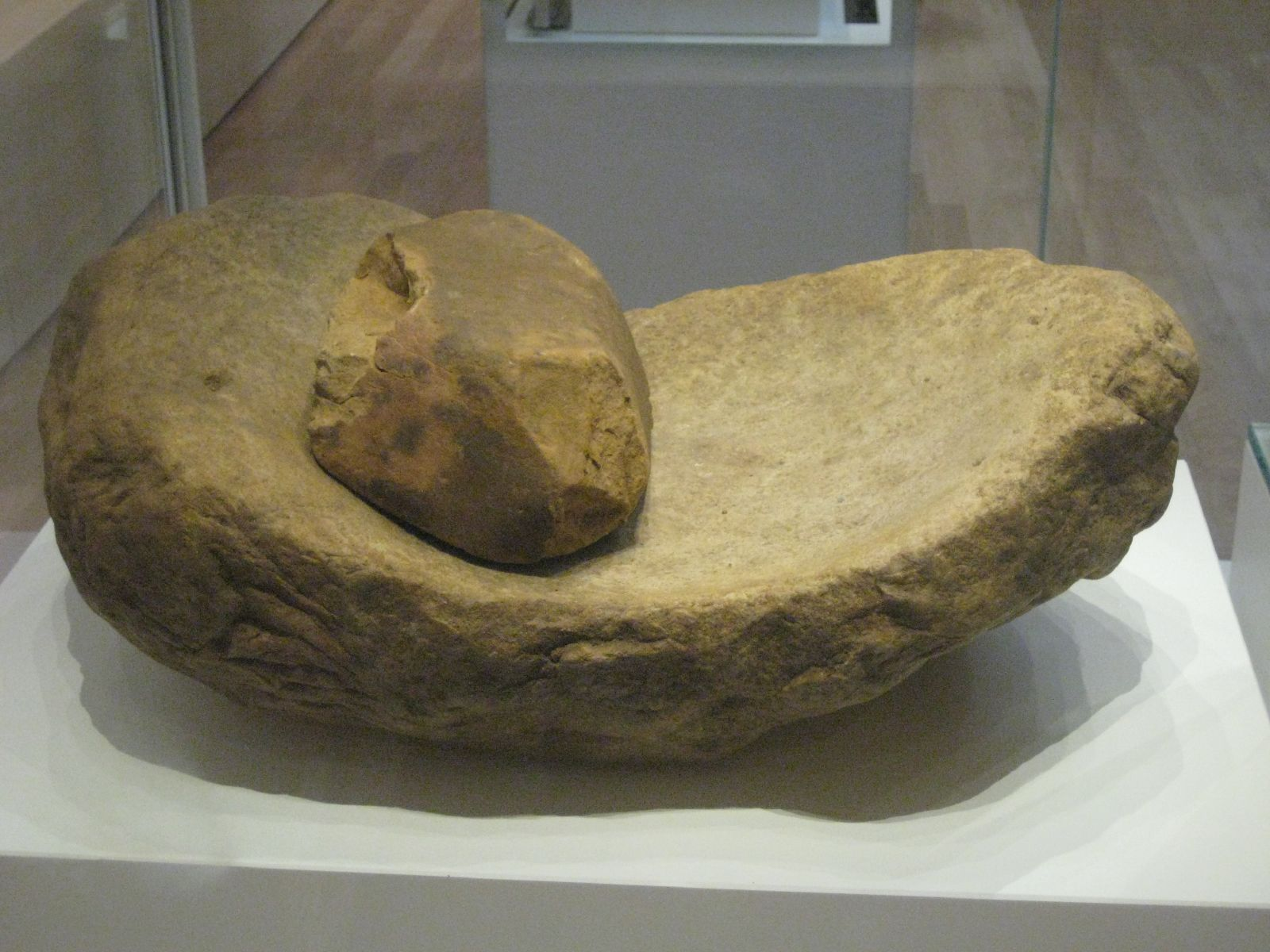 Early Neolithic (3700 - 3500 BC) Etton, Cambridgeshire, England